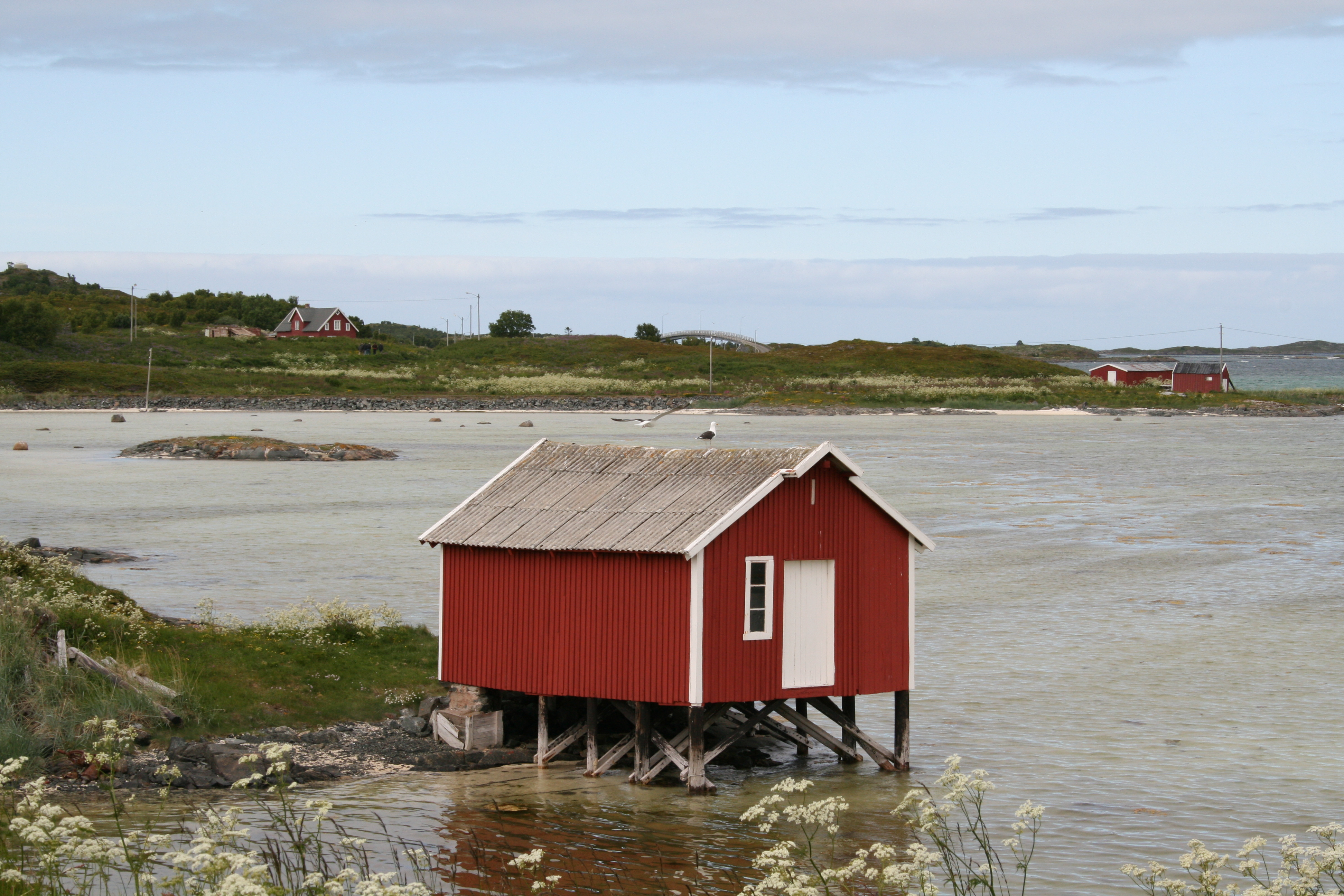 Boathouse located on Krøttøy in Northern Norway